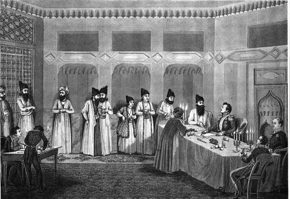 Ivan Paskevich with Abbas Mirza sign the Treaty of Turkmanchay at the conclusion of 1826-1828 Russo-Persian wars.